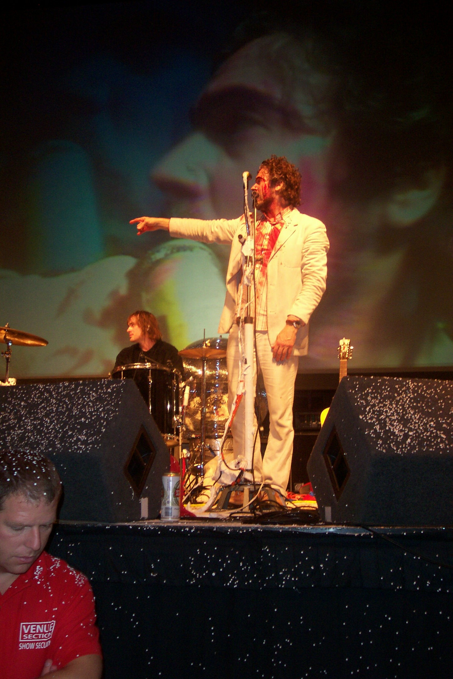 Wayne Coyne from The Flaming Lips, Brighton Centre, UK - November 2, 2003.